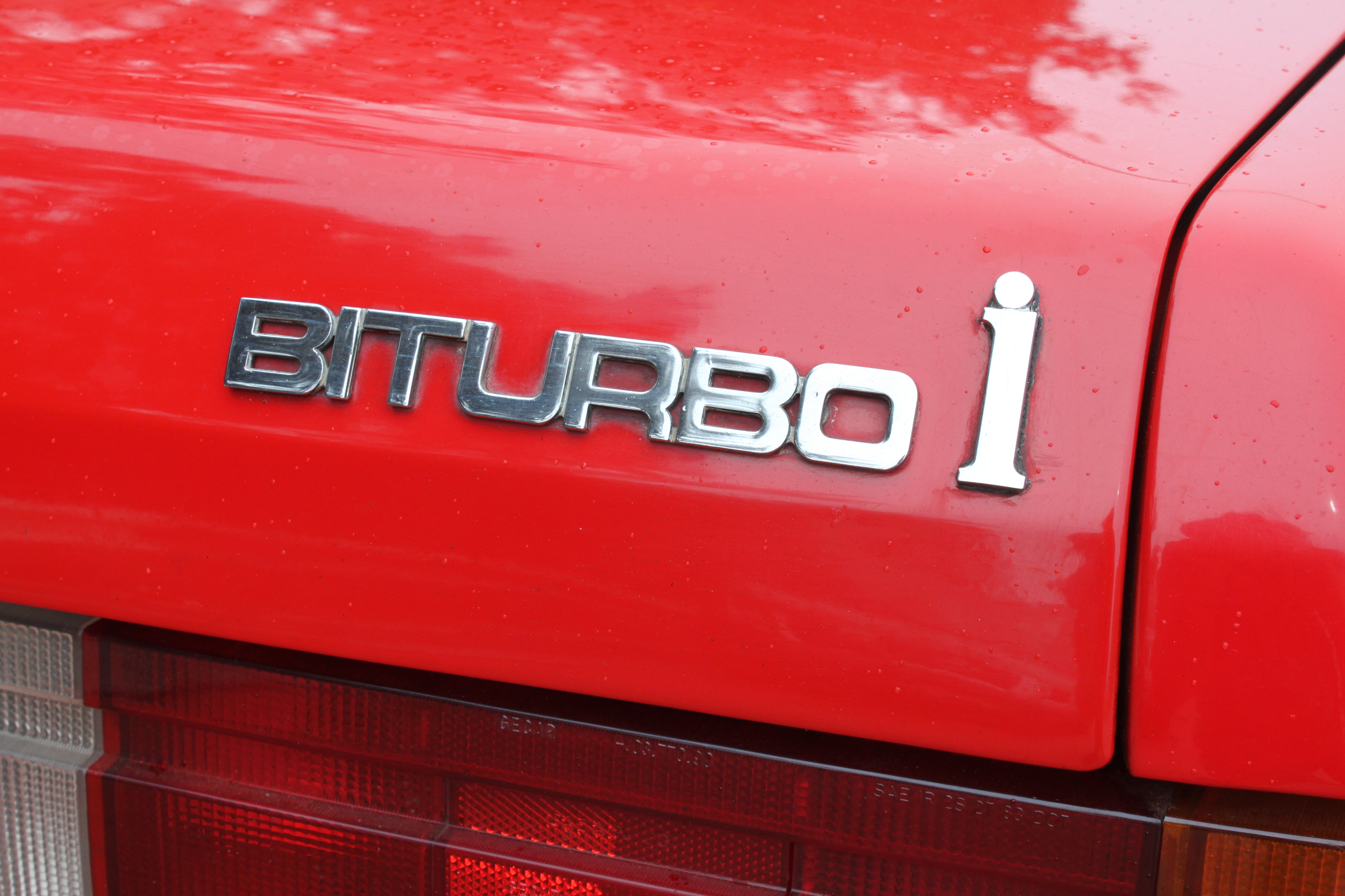 1989 Maserati Biturbo i Spyder Vehicle registration enquiry results Jurisdiction Queensland Registration 999EKF Chassis code ZAM333B00HA190107 Year of manufacture 1989